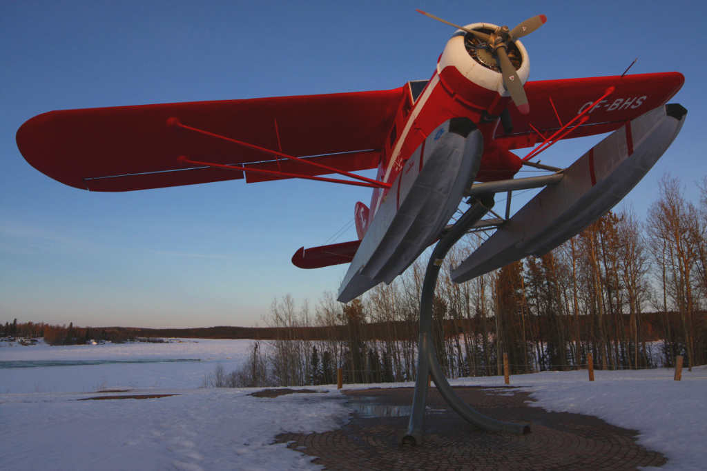 Noorduyn Norseman Mk.V floatplane on display stand at sunset, Thompson, Manitoba, Canada, registration CF-BHS, damaged beyond repair by fire in 1989 and restored for display in 2008. history link (archive)